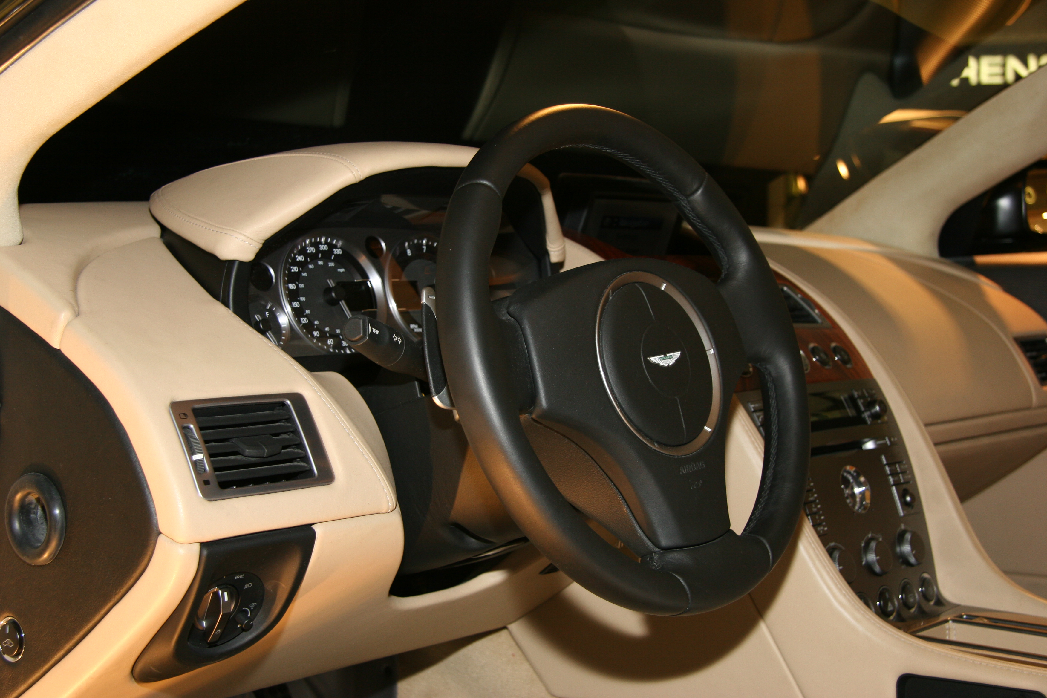 Aston Martin